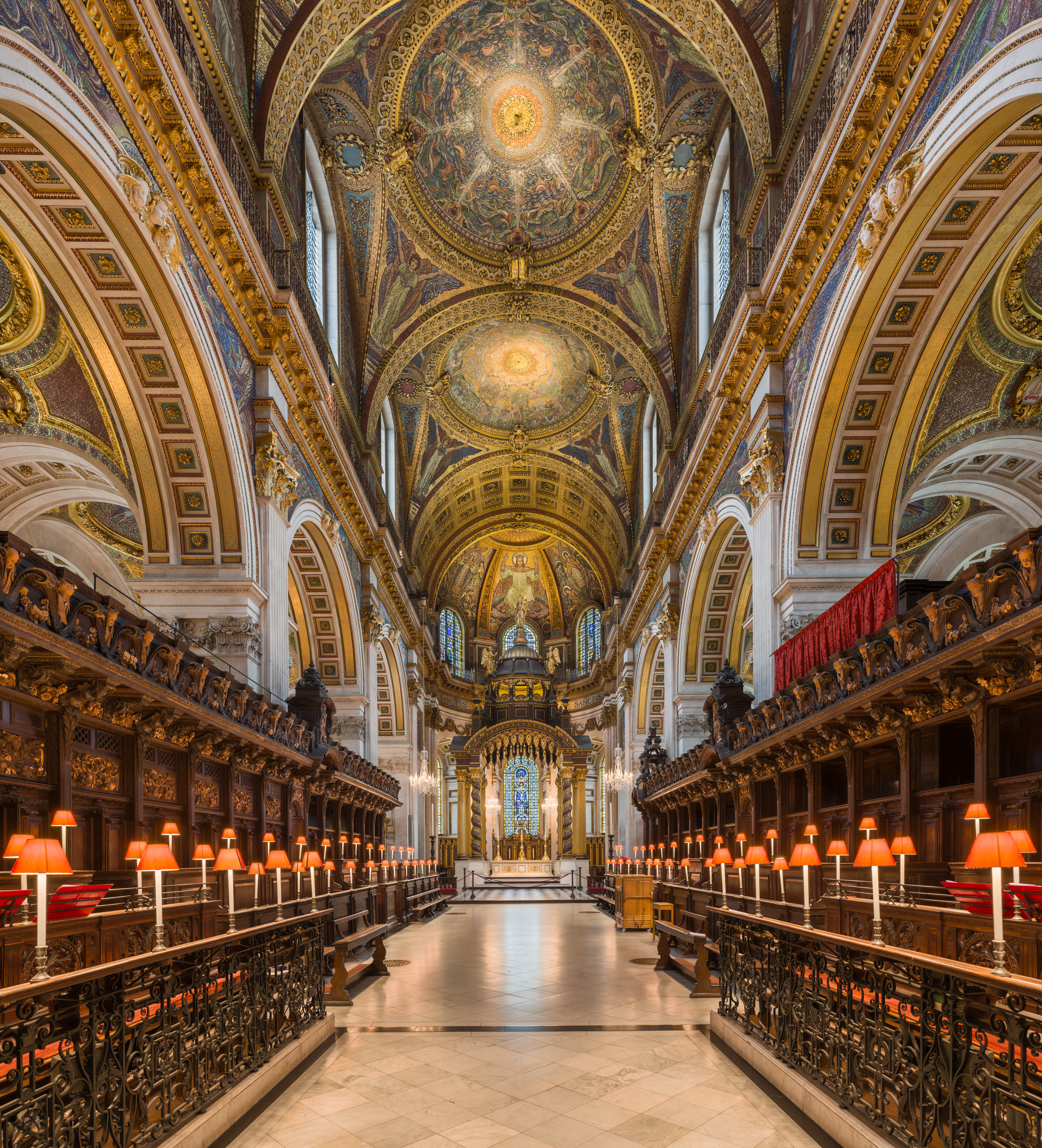 The choir of St Paul's Cathedral looking east towards the High Altar.